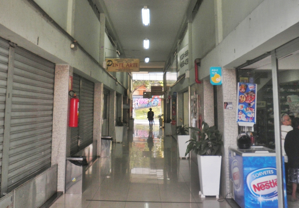 Shopping mall at Conjunto Estrela d'Alva, in the Belo Horizonte neighborhoods (Minas Gerais, Brazil)